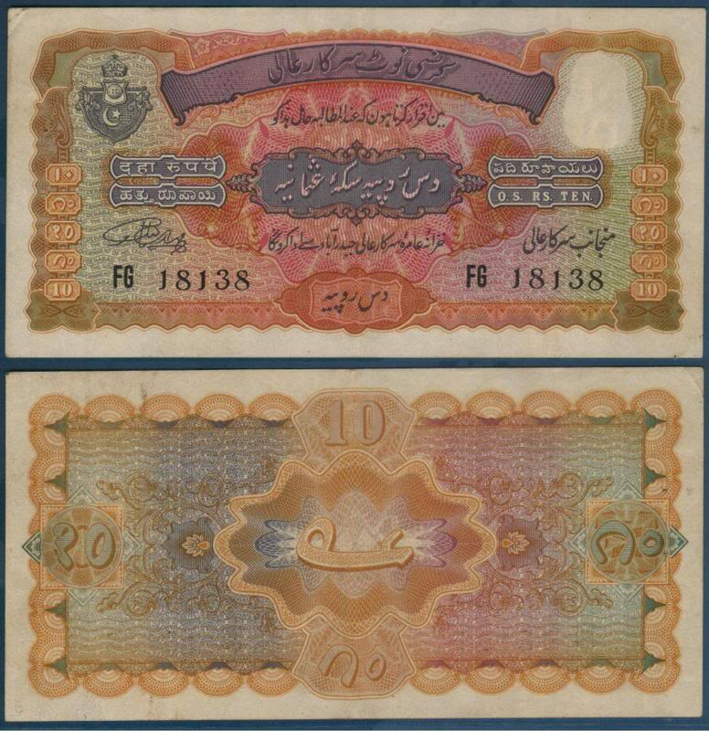 10 Rupees note of erstwhile Bank of Hyderabad